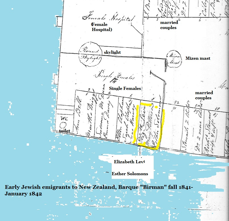 A snippet of a map of the berths on the Barque Birman, highlighted to show where two unmarried Jewish women were assigned. Elizabeth Levi (sic)'s future sister in law, Jane Harvey, is in the berth adjoining theirs. The single male berths are at the opposite end of the ship. The "female hospital" was in frequent use by women immigrants who gave birth during the journey, not all of whom, or their babies, survived the journey. Passengers complained about the stench from the toilets.